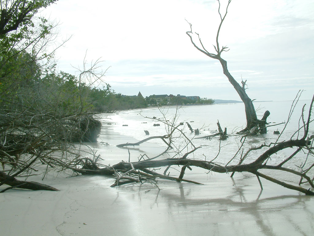 Damage by Hurricane Ivan to trees lining beach at Whitehouse, Jamaica. Photo by User:Op. Deo November 20,2005: over one year later.